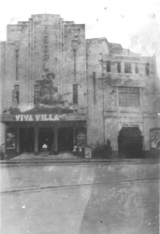 Regal Cinema, Bombay Pic taken in 1935 by my grandfather. Part of the old family albums. Nichalp 19:00, July 20, 2005 (UTC)